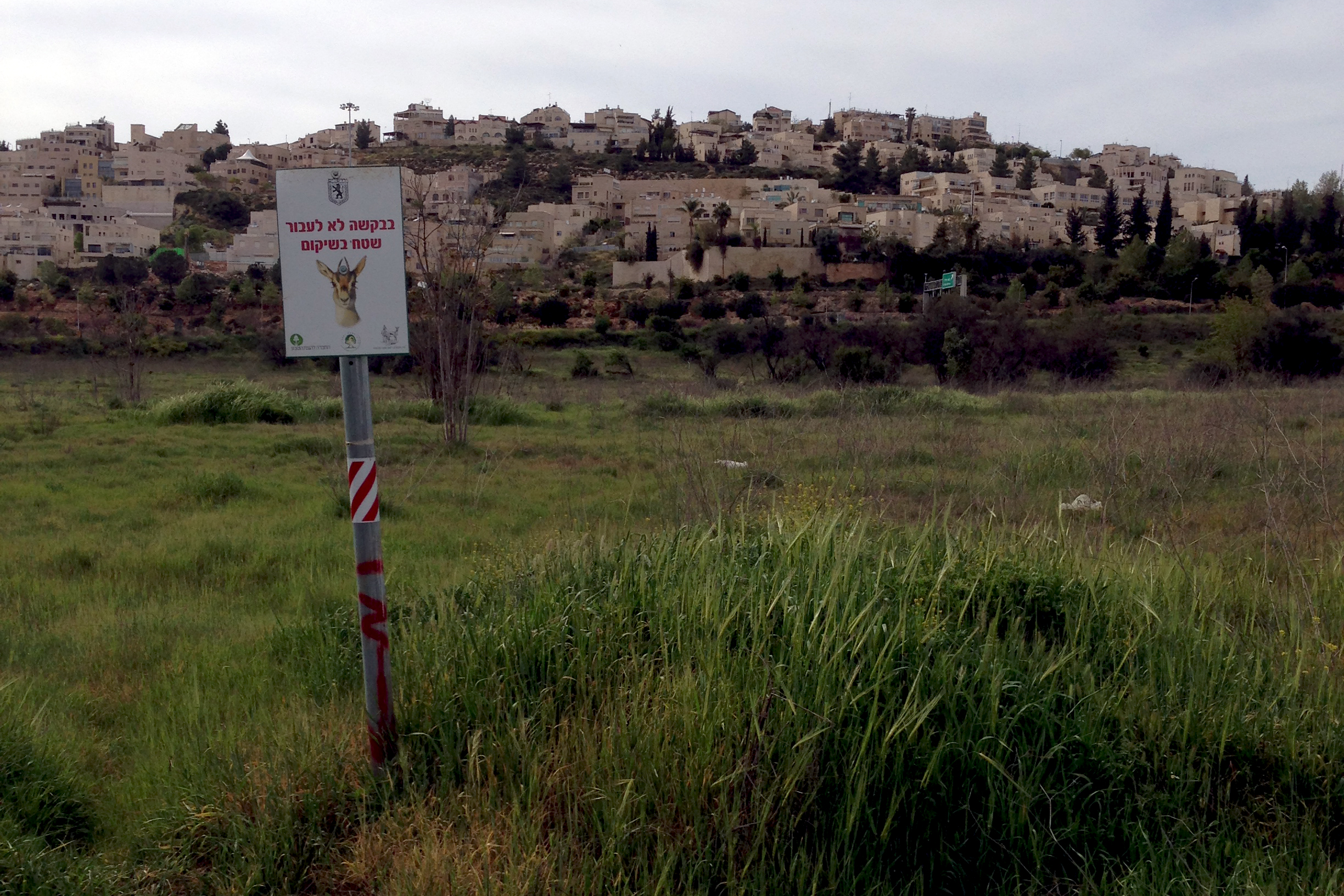 Sign in Gazelle Valley, Jerusalem.